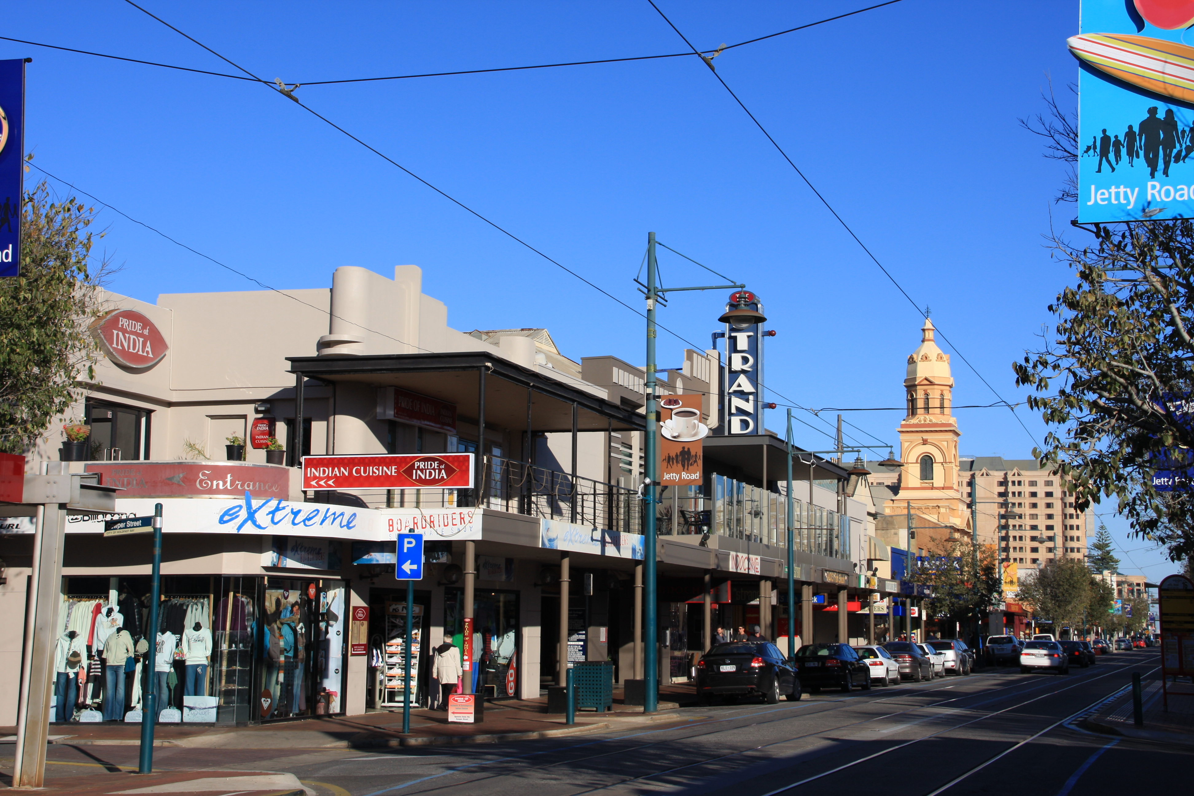 Glenelg shopping mall Adelaide